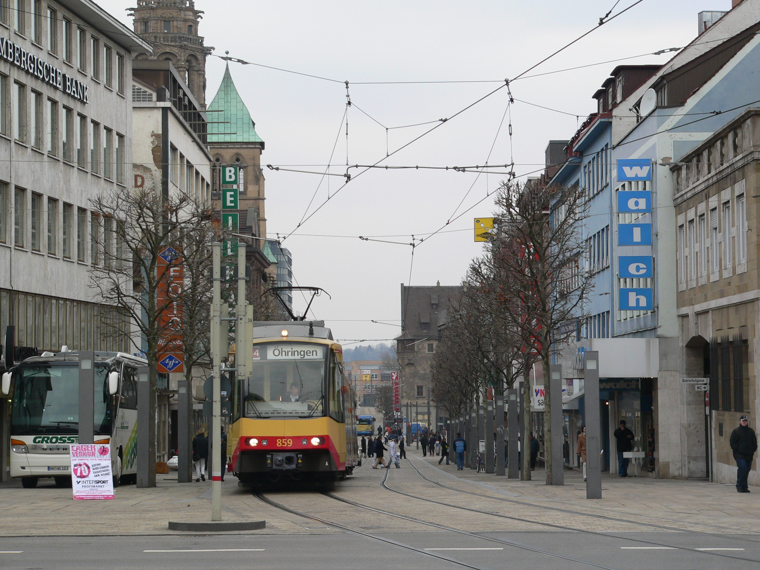 Street "Kaiserstraße" with city railway of Heilbronn